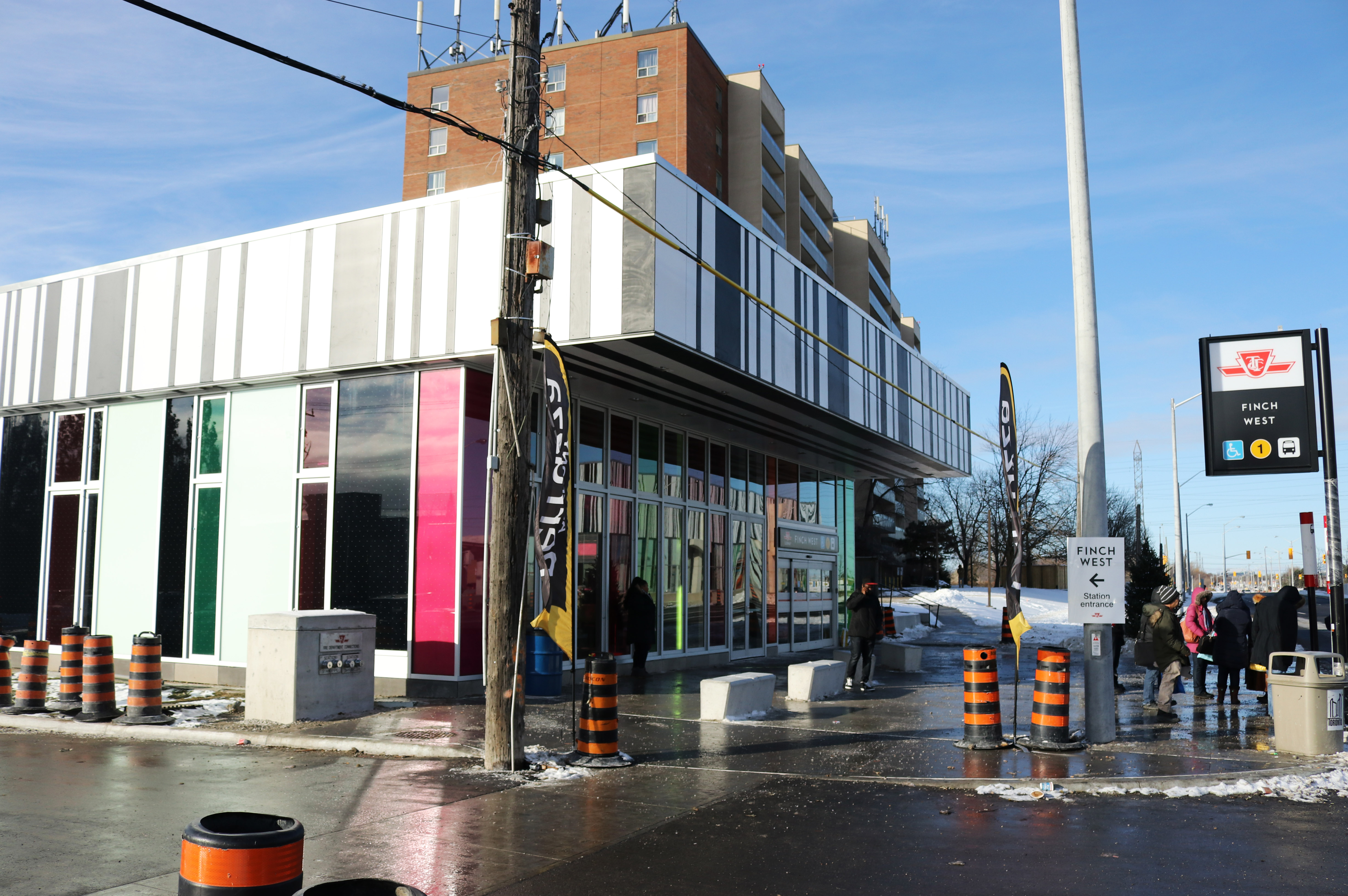 Finch West Station west entrance in December 16, 2017